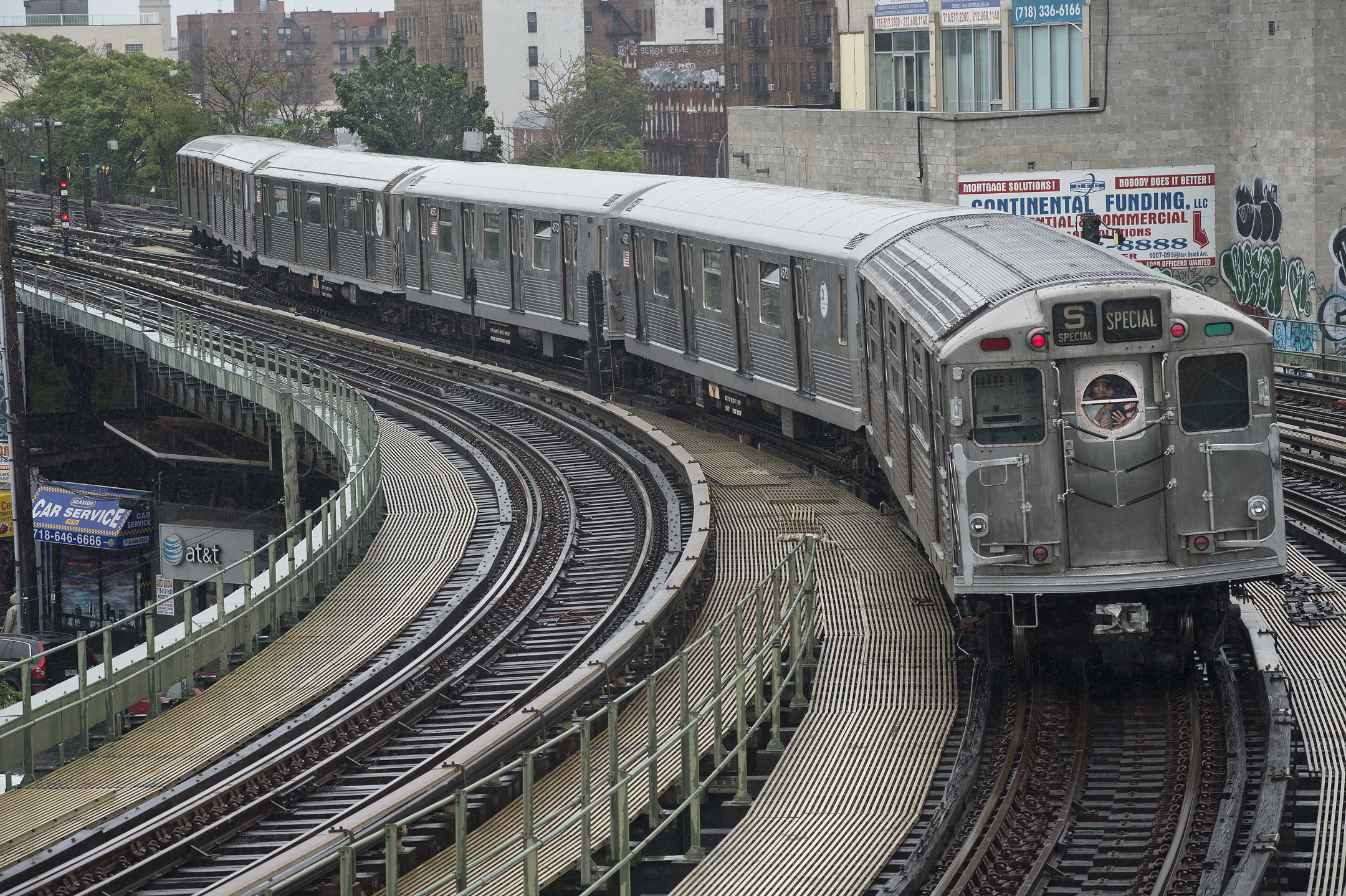 The MTA celebrated the centennial anniversary of the now-defunct Brooklyn-Manhattan Transit Corporation (BMT) with special nostaligia rides on Saturday, June 27 and Sunday, June 28, 2015. Four trains that were in service decades ago carried customers from the Brighton Beach Q station in Brooklyn on non-stop loops. Photo: Metropolitan Transportation Authority / Patrick Cashin